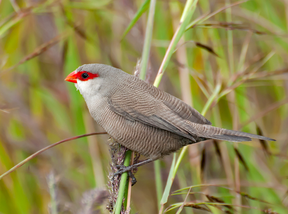 An adult Common Waxbill in Mairiporã, São Paulo, Brazil.